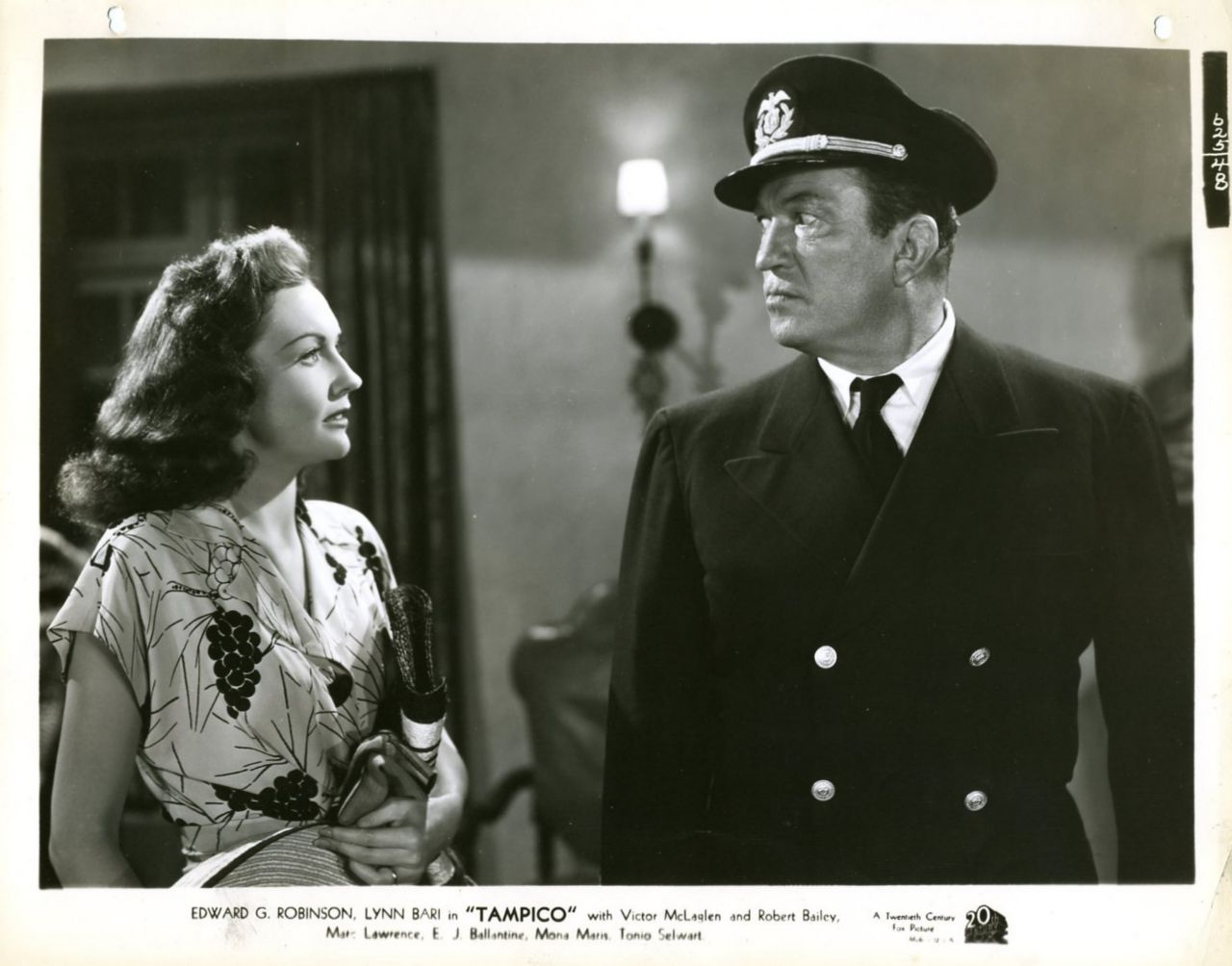 Promotion photo: Lynn Bari with Victor McLaglen in Tampico (1944).